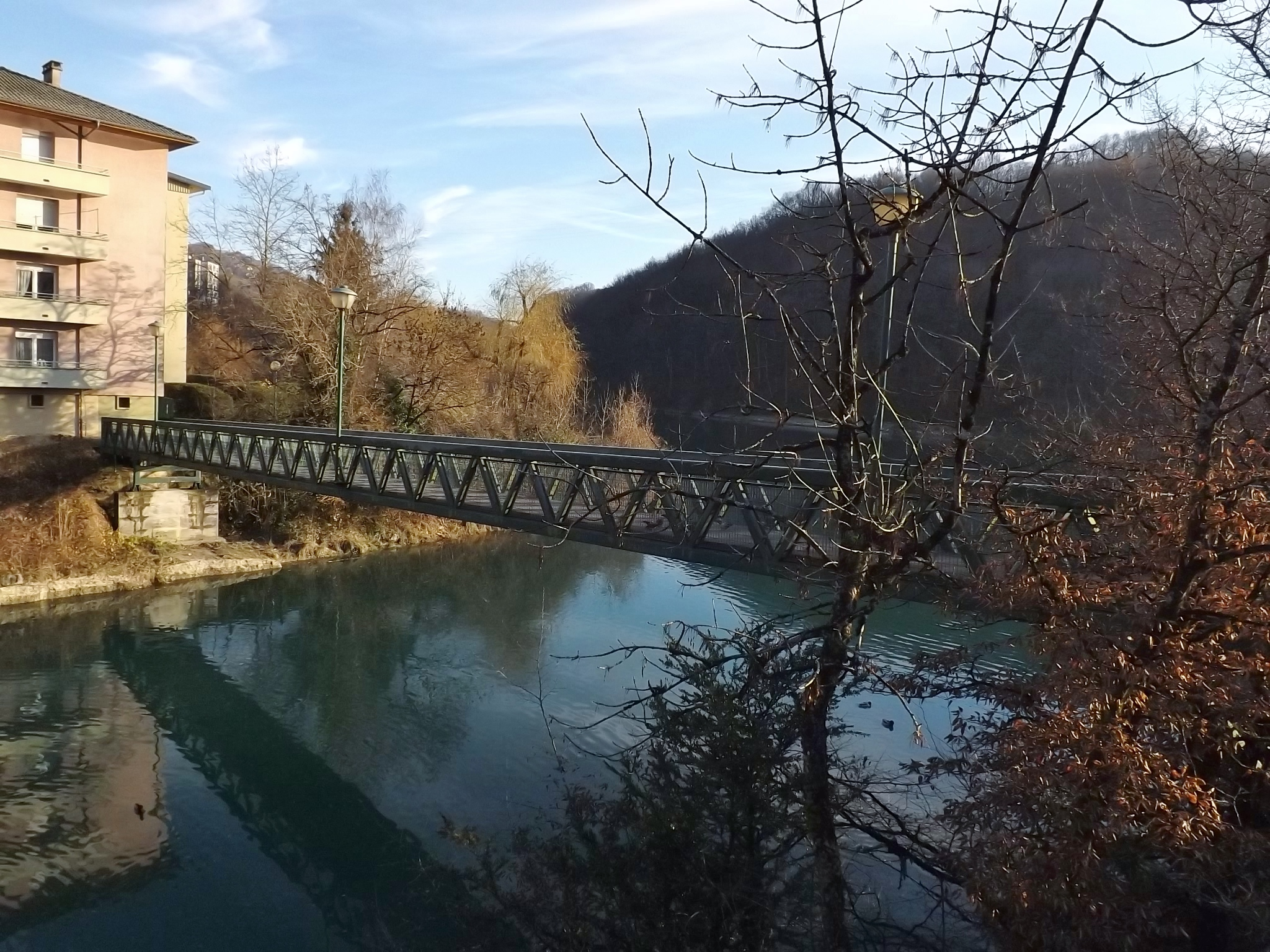 Sight of the last footbridge crossing the Valserine river before it flows into the Rhône river some meters away, in the city of Bellegarde-sur-Valserine in Ain, France.